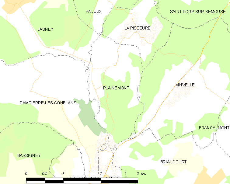 Map of French municipality